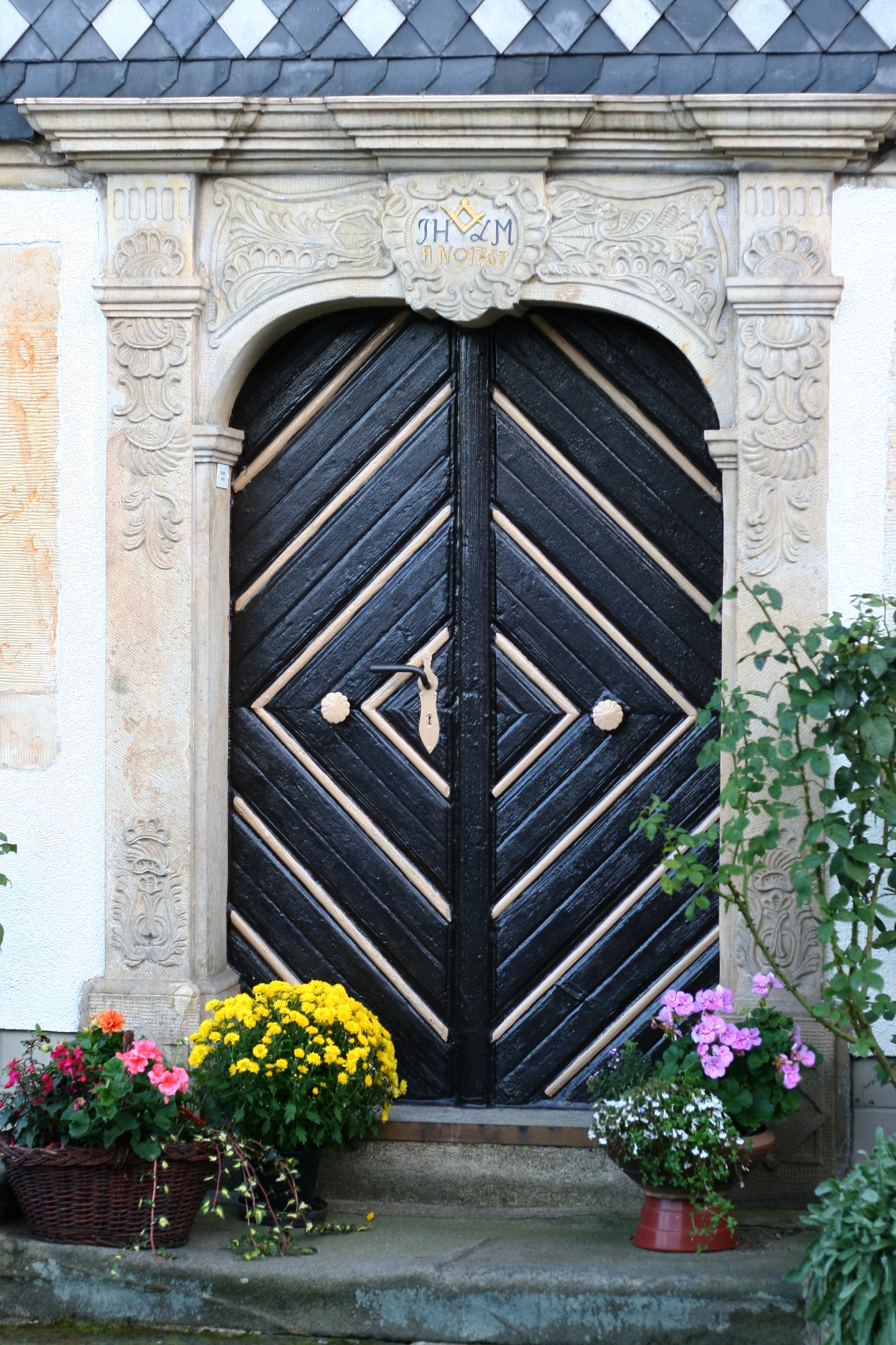 typical door frame in Waltersdorf, Saxony